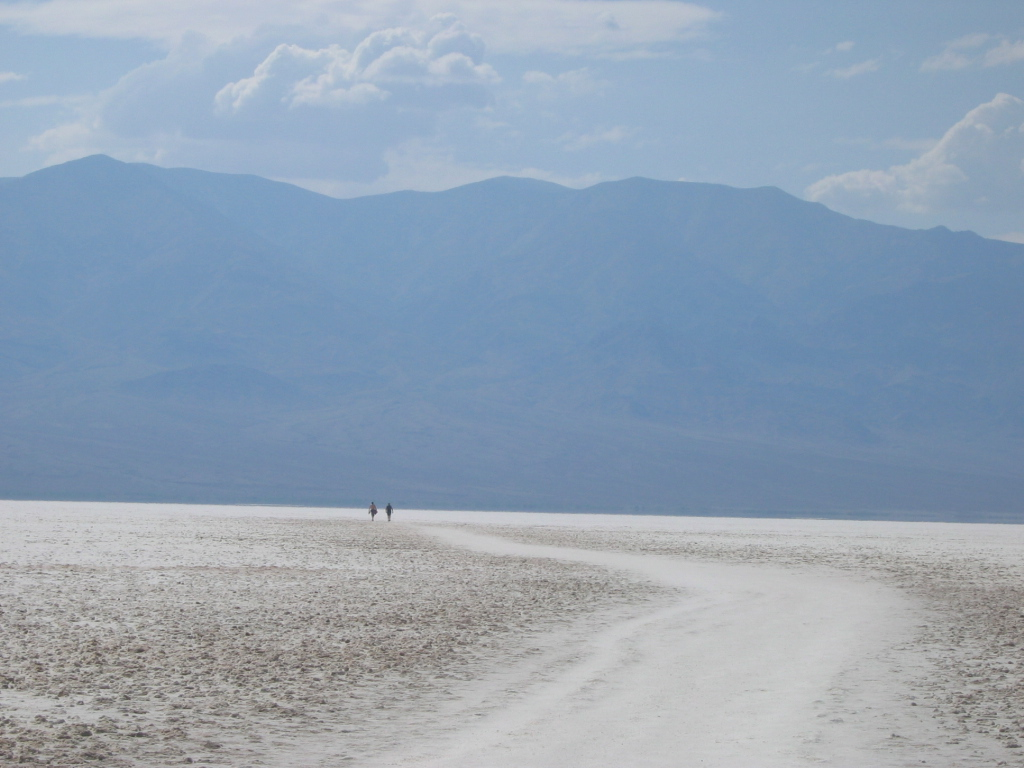 Description : Bad Water, Death Valley, California (USA) Author : own work Urban 19:05, 2 May 2006 (UTC) ; I took this picture on April 2006